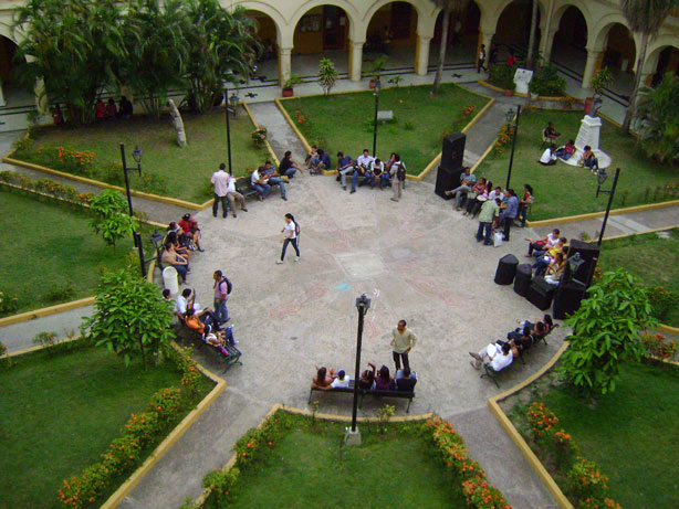 Plaza central de la Universidad de Cartagena, sede San Agustin